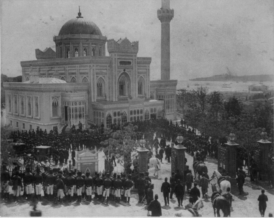 The Selamlik (Sultan's procession to the mosque) at the Hamidiye Camii (mosque) on Friday